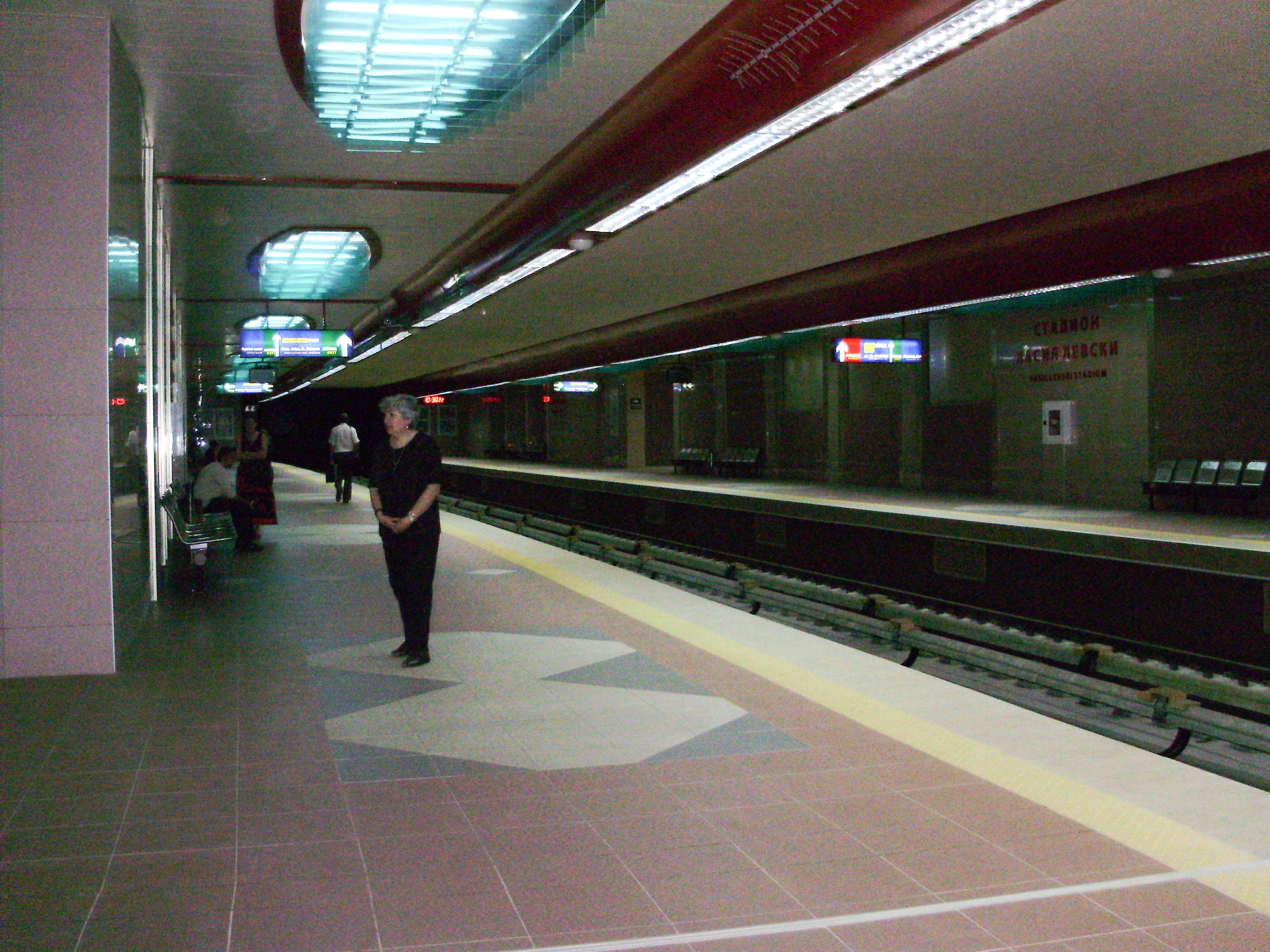 metrostation Vasil Levski stadium